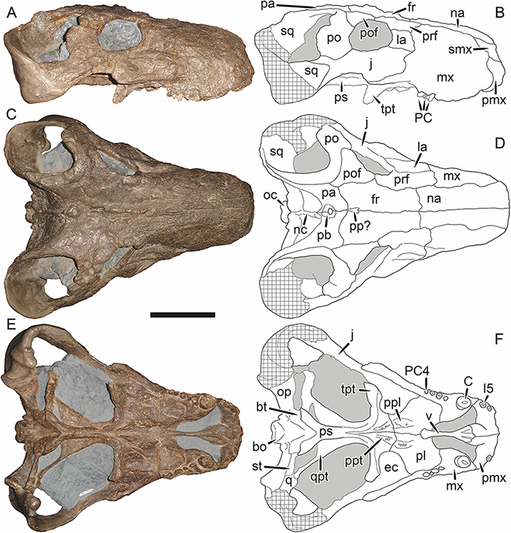 Holotype (GPIT/RE/7117) of Ruhuhucerberus haughtoni (Huene, 1950) in (A) right lateral, (C) dorsal, and (E) ventral view (with (B) (D) and (F) interpretive drawings). Abbreviations: bo, basioccipital; bt, basal tuber; C, upper canine; ec, ectopterygoid; fr, frontal; I, upper incisor; j, jugal; la, lacrimal; mx, maxilla; na, nasal; nc, nuchal crest; oc, occipital condyle; op, opisthotic; pa, parietal; pb, pineal boss; PC, upper postcanine; pmx, premaxilla; po, postorbital; pof, postfrontal; pp, preparietal; ppl, palatal boss of palatine; ppt, palatal boss of pterygoid; prf, prefrontal; ps, parasphenoid; q, quadrate; qpt, quadrate ramus of pterygoid; smx, septomaxilla; sq, squamosal; st, stapes; tpt, transverse process of pterygoid; v, vomer. Gray indicates matrix, hatching indicates plaster. Scale bar equals 10 cm.